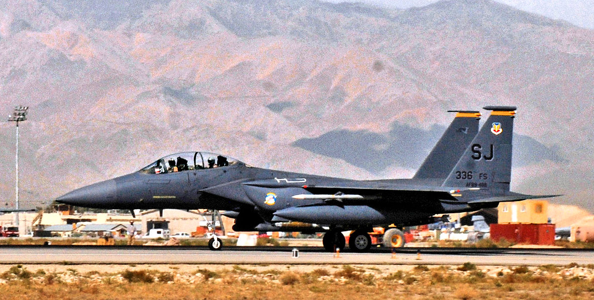 An F-15E Strike Eagle piloted by U.S. Air Force Capt. Frank Fryar, 336th Expeditionary Fighter Squadron, U.S. Army Maj. Gen. John F. Campbell, Combined Joint Task Force 101, Regional Command East commander, Campbell flew with Fryar over eastern Afghanistan to become more familiar with the capabilities of the F-15, which provides close-air support to Campbellís Soldiers working on the ground. (U.S. Air Force photo/Tech. Sgt. M. Erick Reynolds)